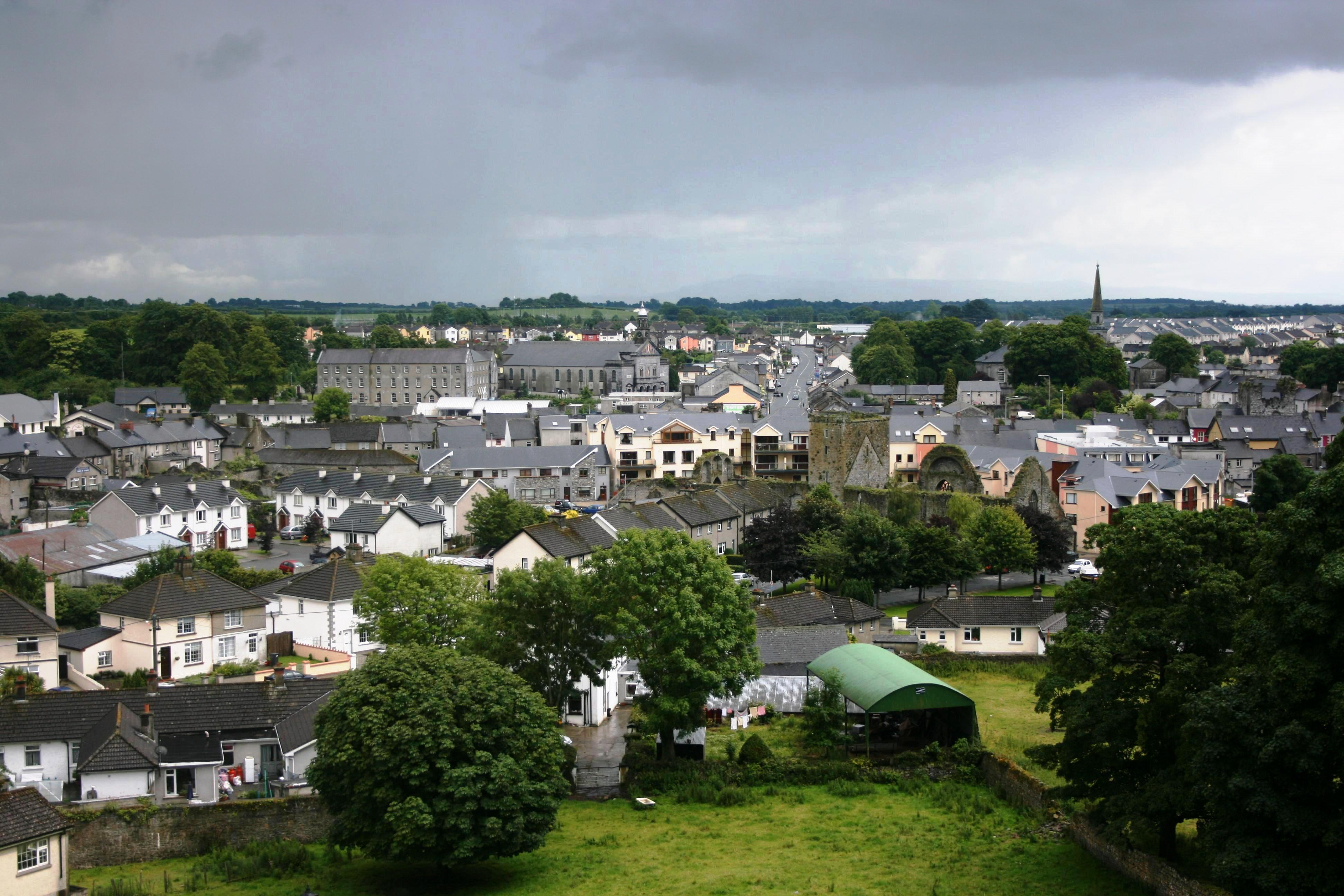 Panorama of Cashel from the Rock of Cashel, Ireland